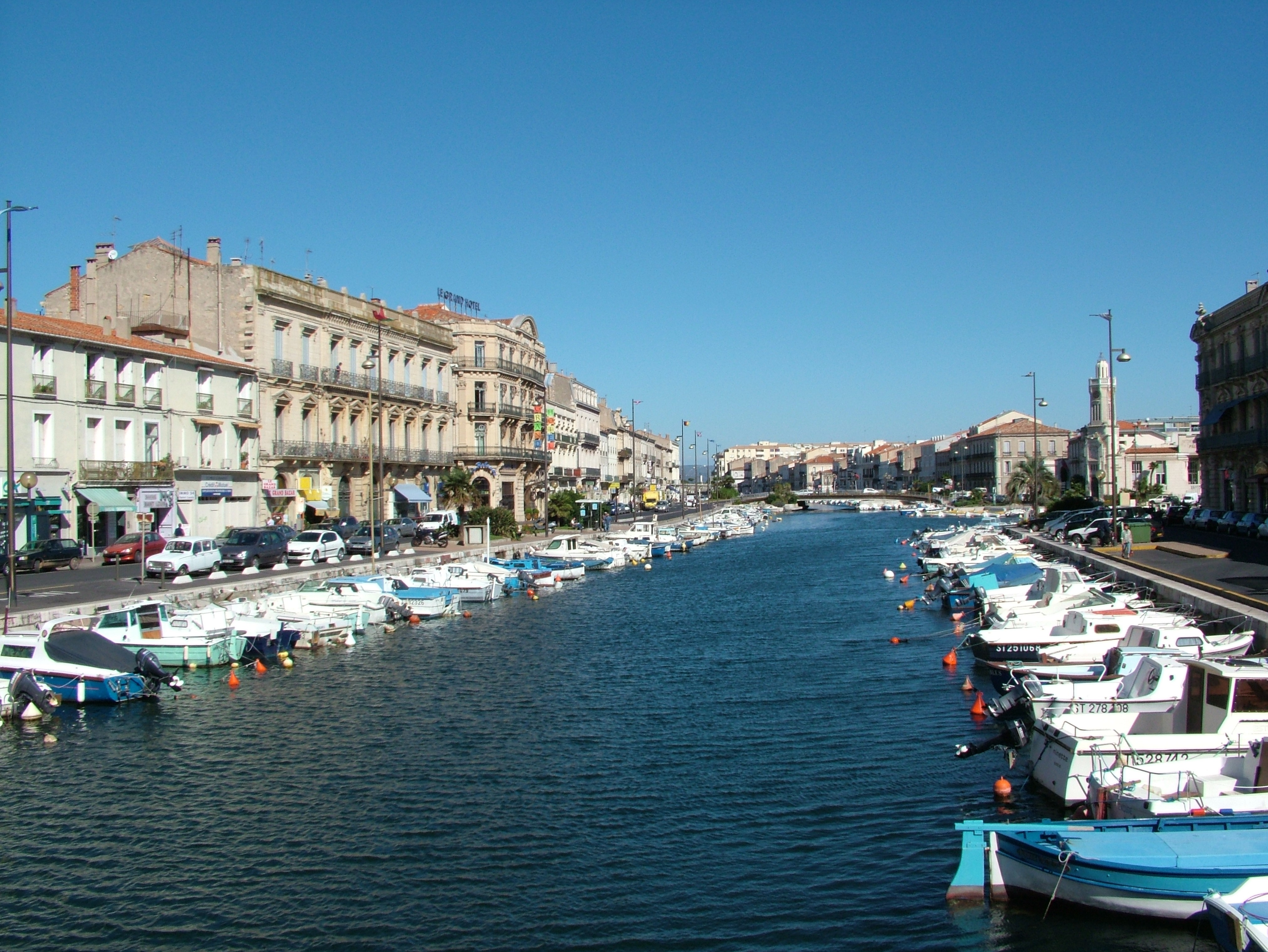 Sète (Hérault) - the chanal